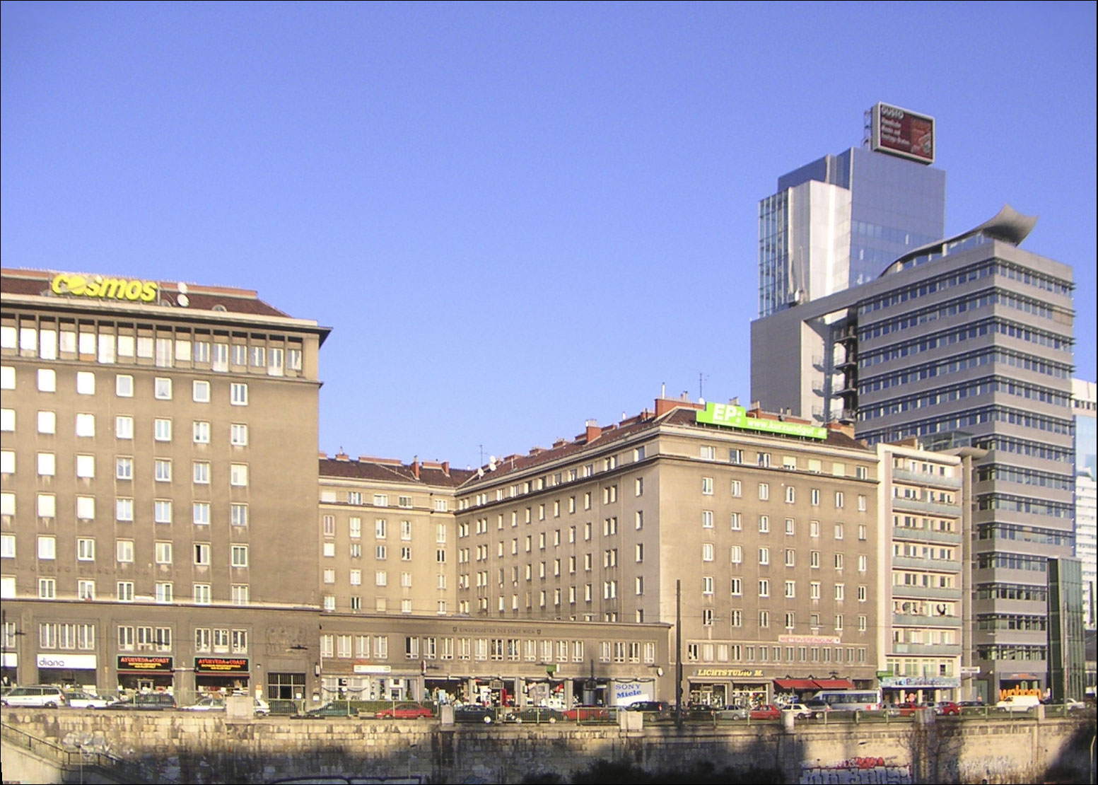 Vienna, December 2005, photographed by Peter Binter